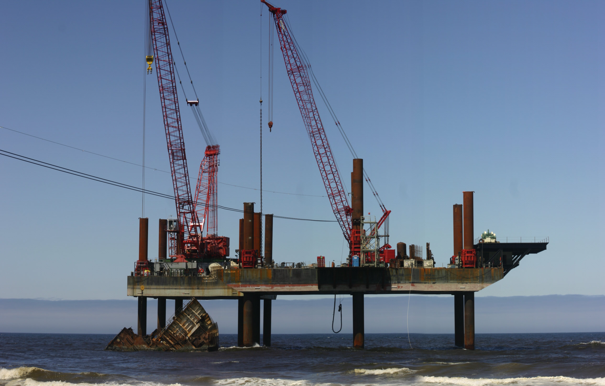 Titan's Karlissa A and Karlissa B tower over the remaining aft section of the New Carissa while crews work on dismantling the wreck. Karlissa A and Karlissa B are positioned in an "L" shape with the New Carissa in between the two.